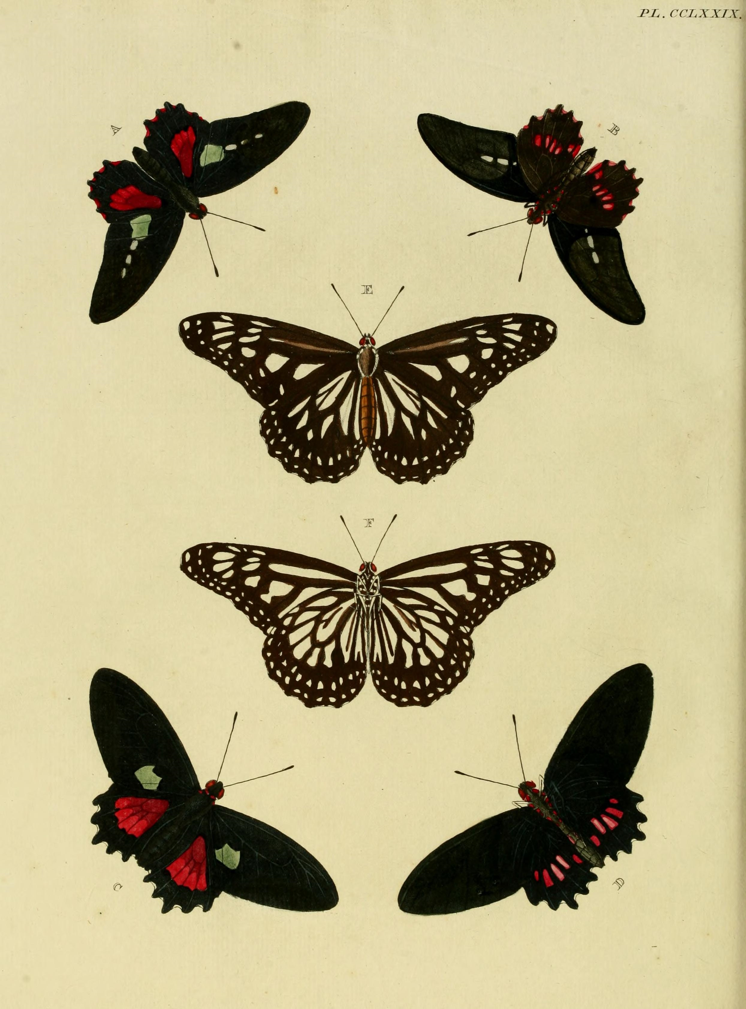 Plate CCLXXIX A, B (♂), C, D (♀): "(Papilio) Aeneas" ( = Parides aeneas (Linnaeus, 1758)), see Funet. Photo at Butterflies of America. E, F: "(Papilio) Ismare" ( = Danaus ismare (Cramer, [1780]), iconotype?), see Funet. In register spelled "ISMARA".